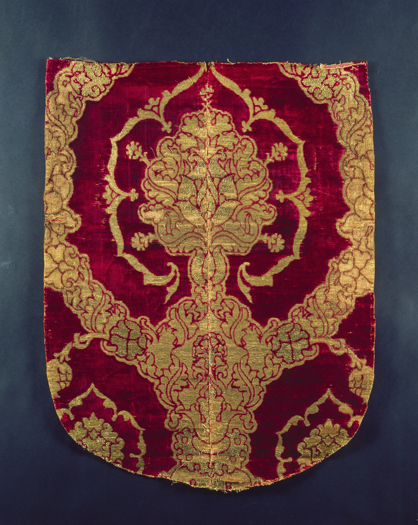 Italy, Venice, circa 1480 Textiles; textile lengths Two-pile silk velvet, pomegranate pattern with looped motifs Gift of Anna Bing Arnold (60.46.9) Costume and Textiles